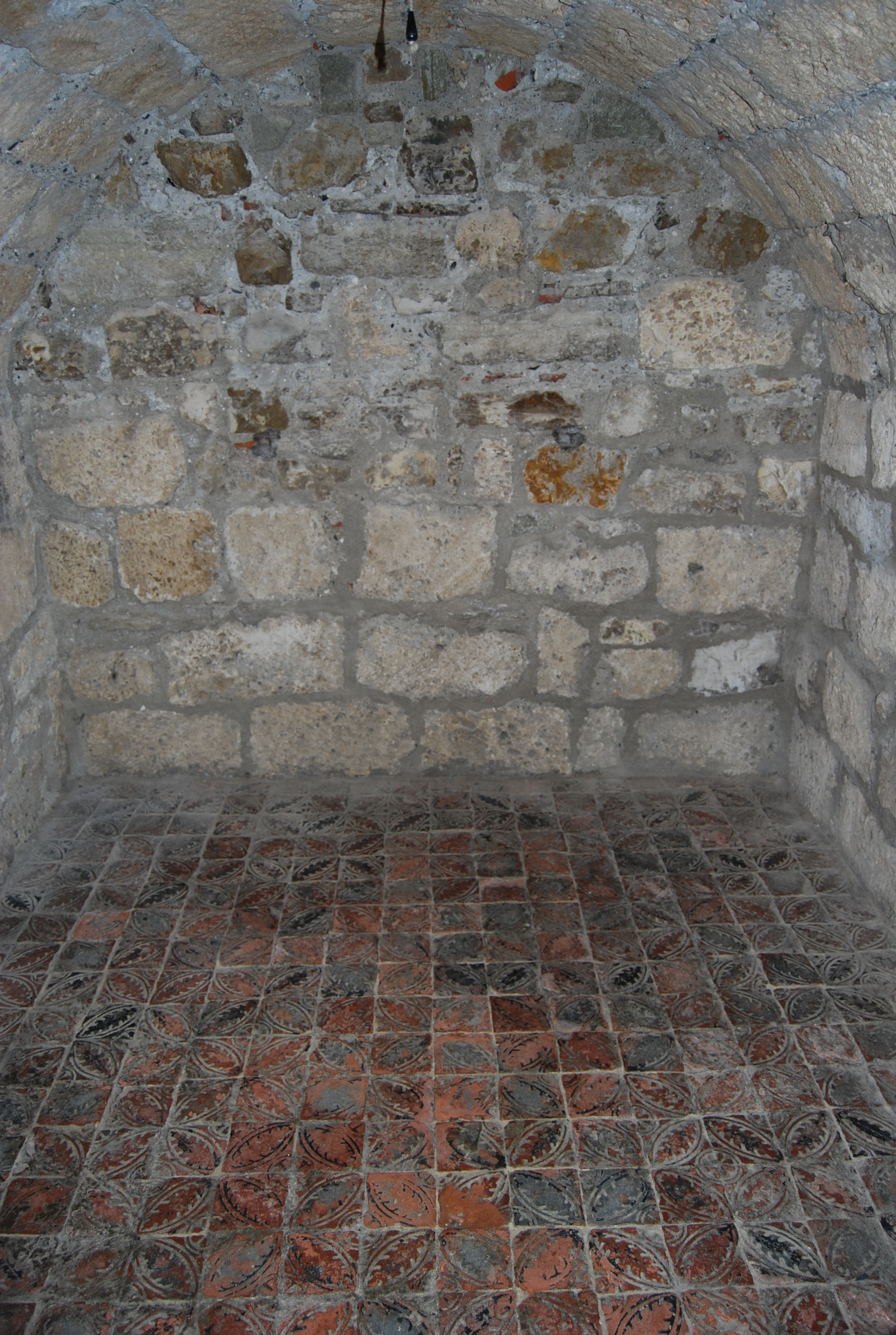 Habsburger burial vault - Church Königsfelden